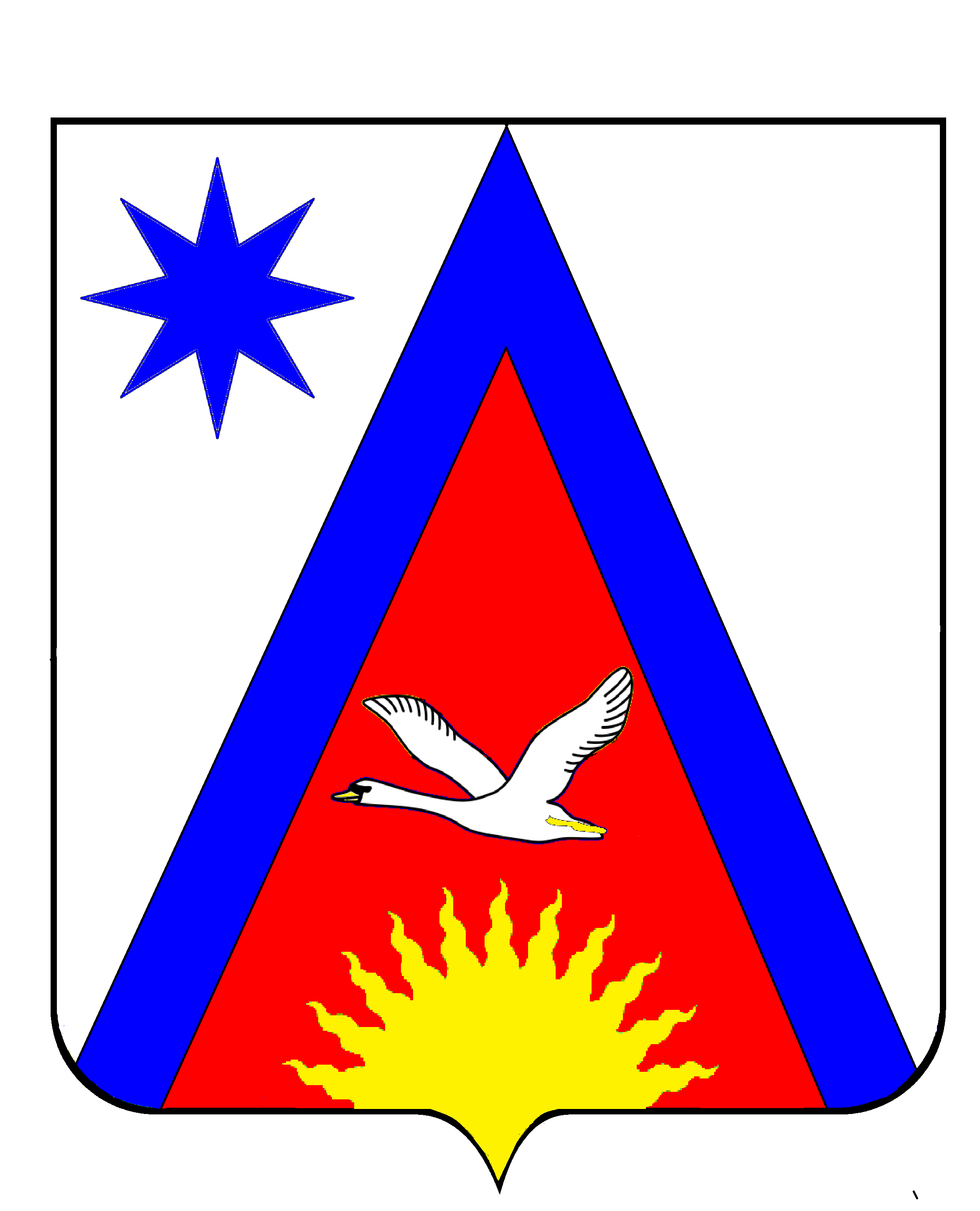 Coat of Arms of municipality "Zarevskoe" (Adygea in Russia)